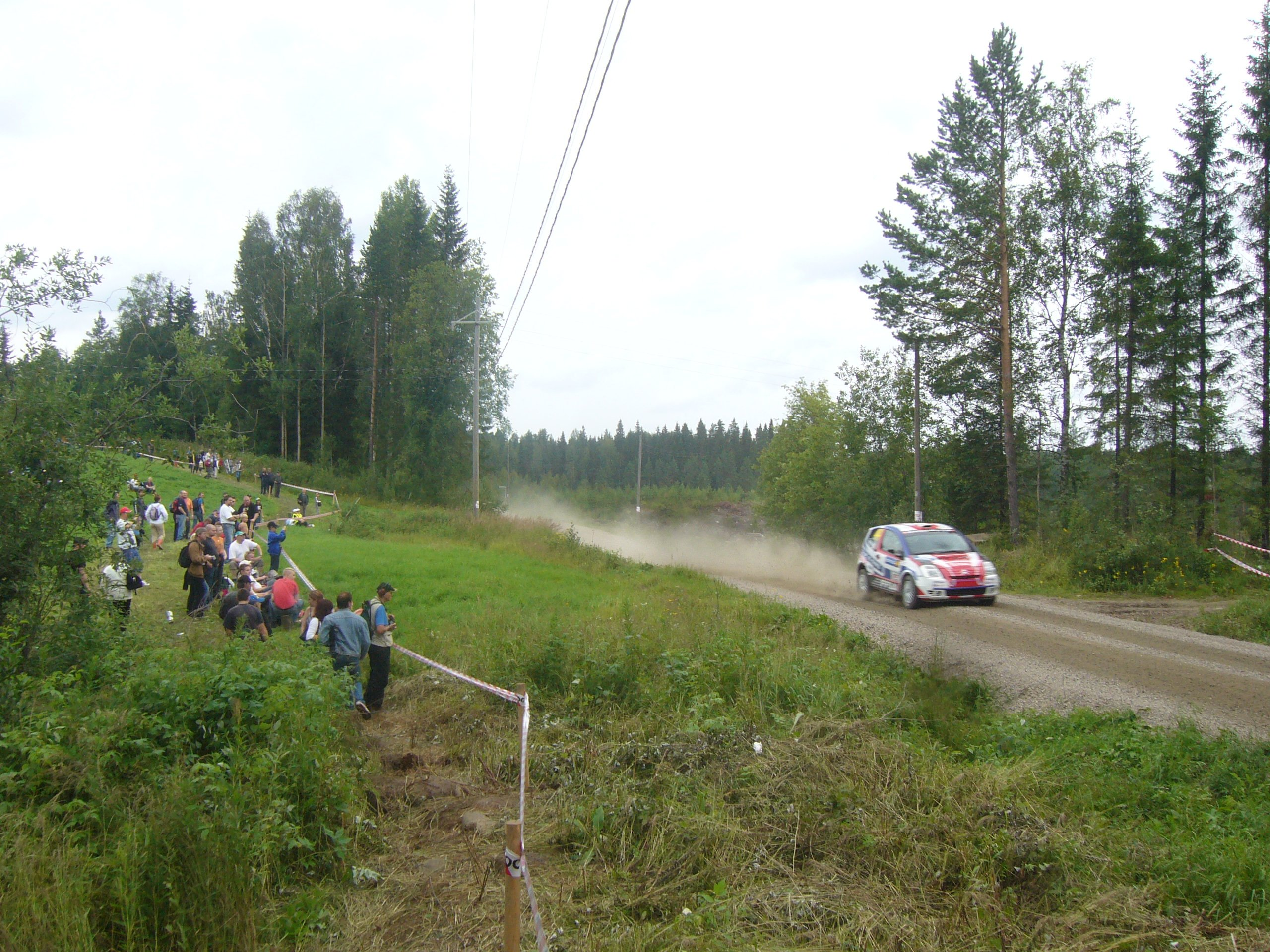 French rallydriver Yoann Bonato in Palsankylä special stage, Neste Oil Rally Finland 2007.